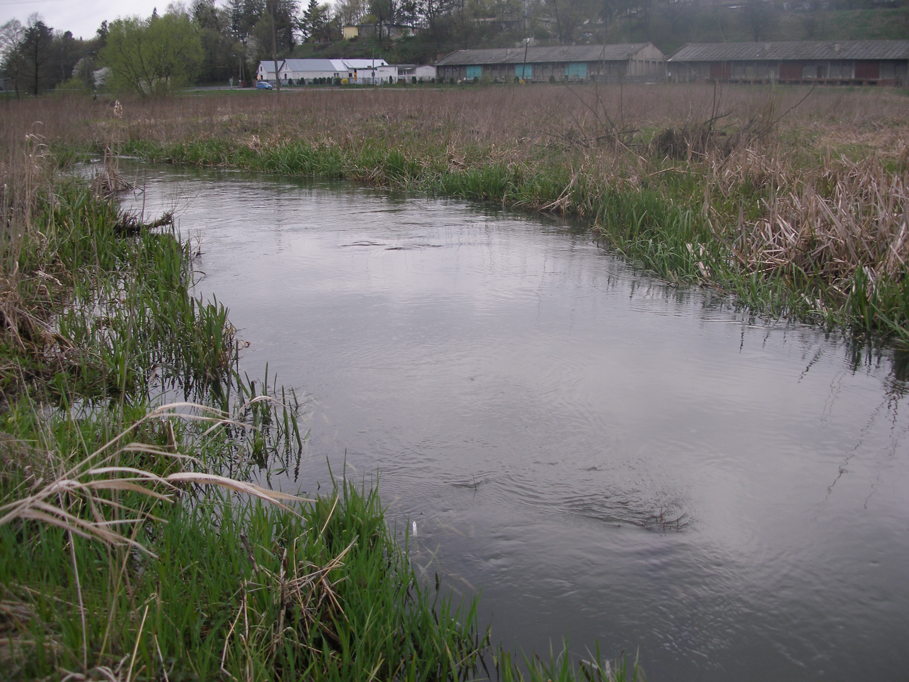 river wolica